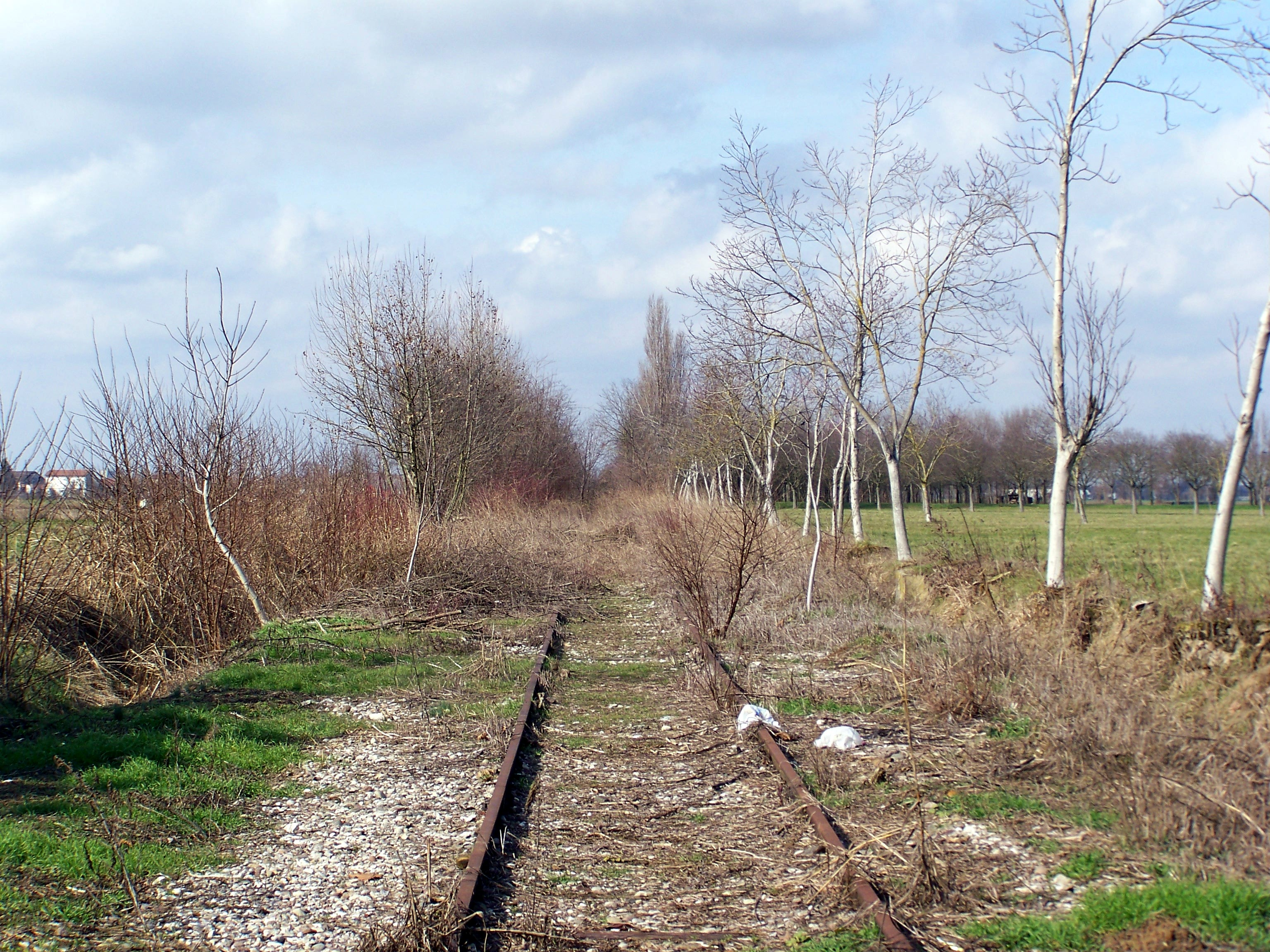 Disused tracks of Mantua–Peschiera railway at Santa Maddalena level crossing (Porto Mantovano (MN)